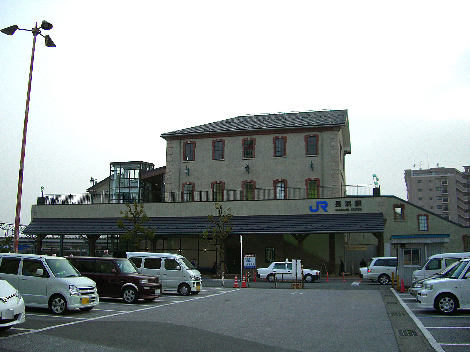 West Japan Railway Hokuriku Main Line（Biwako Line） Nagamaha Station Building（Ibukiguchi Gate）